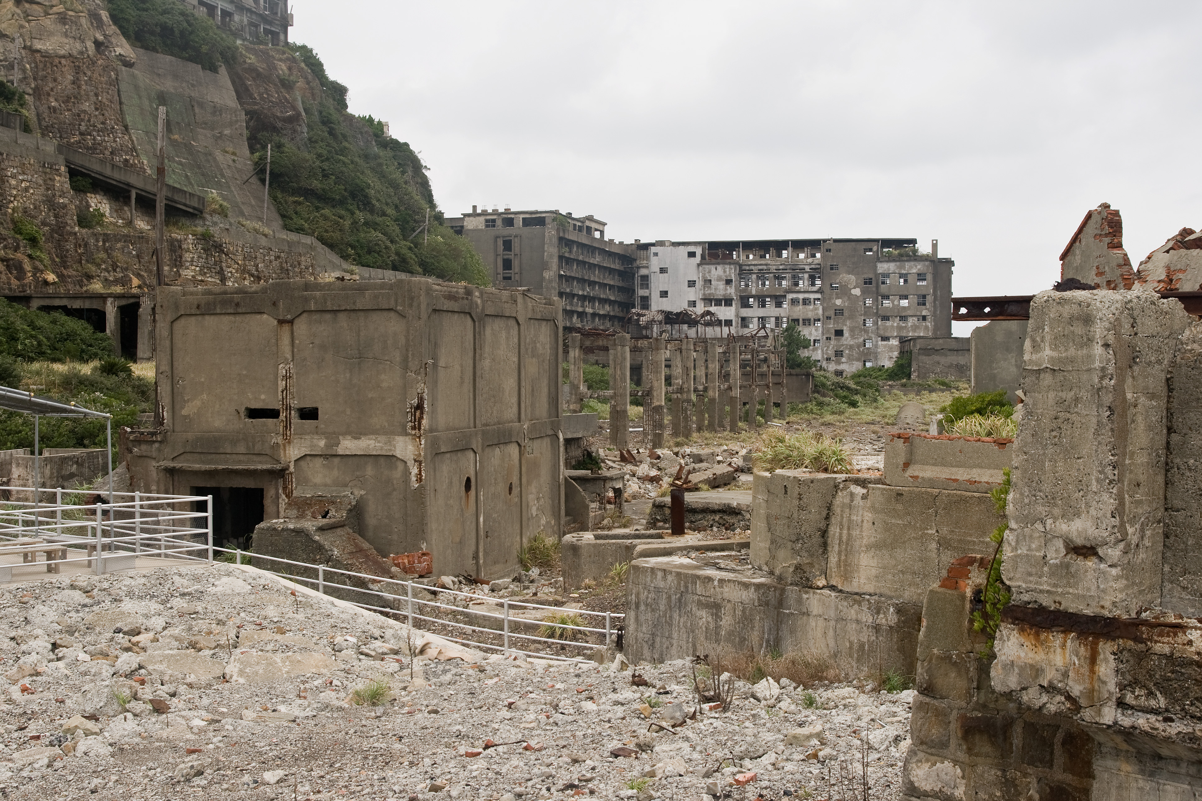 Hashima Island (another name:Gunkan-jima 軍艦島), Nagasaki Pref., Japan.